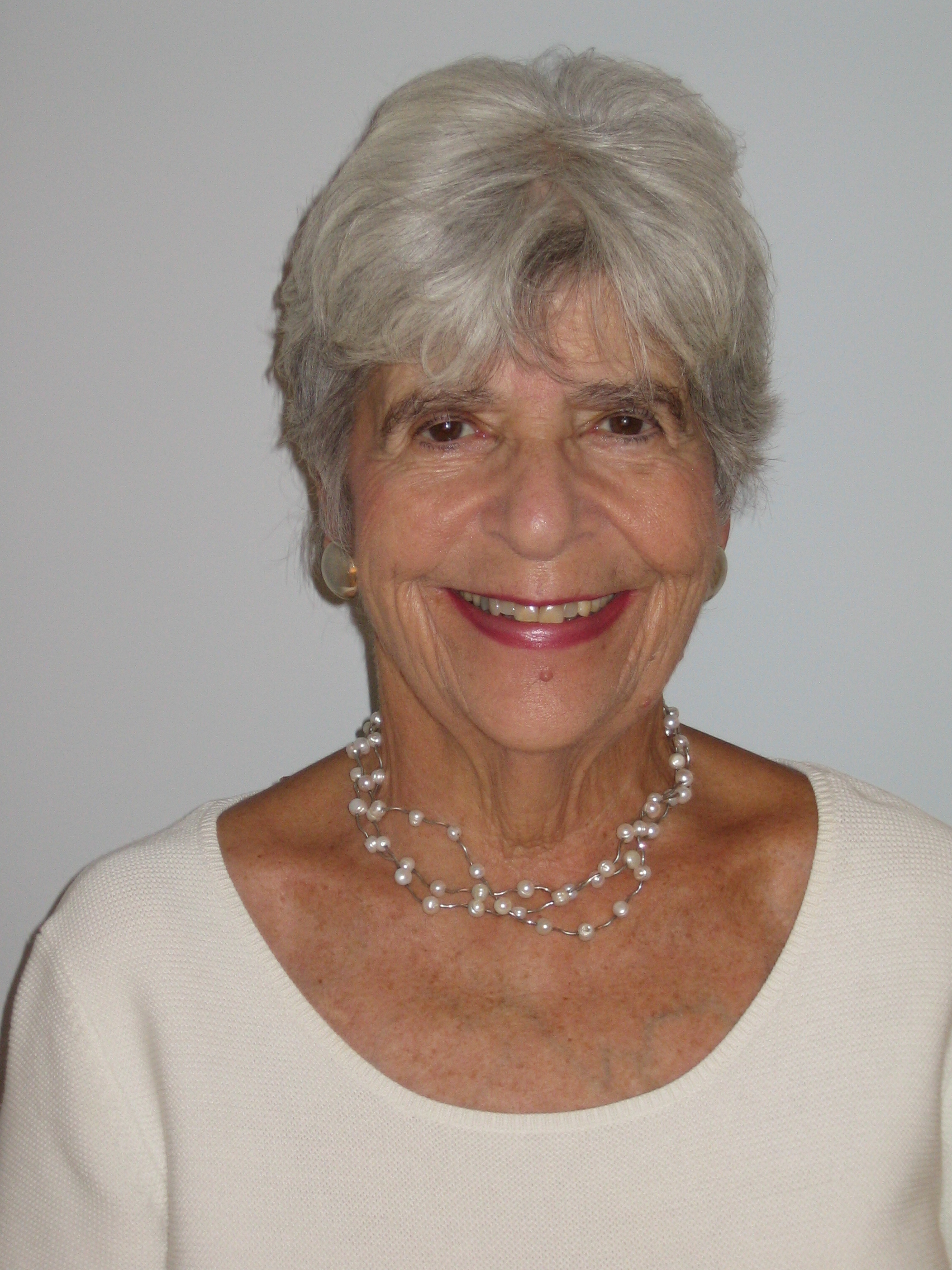 Professional headshot of Nancy Gossels.